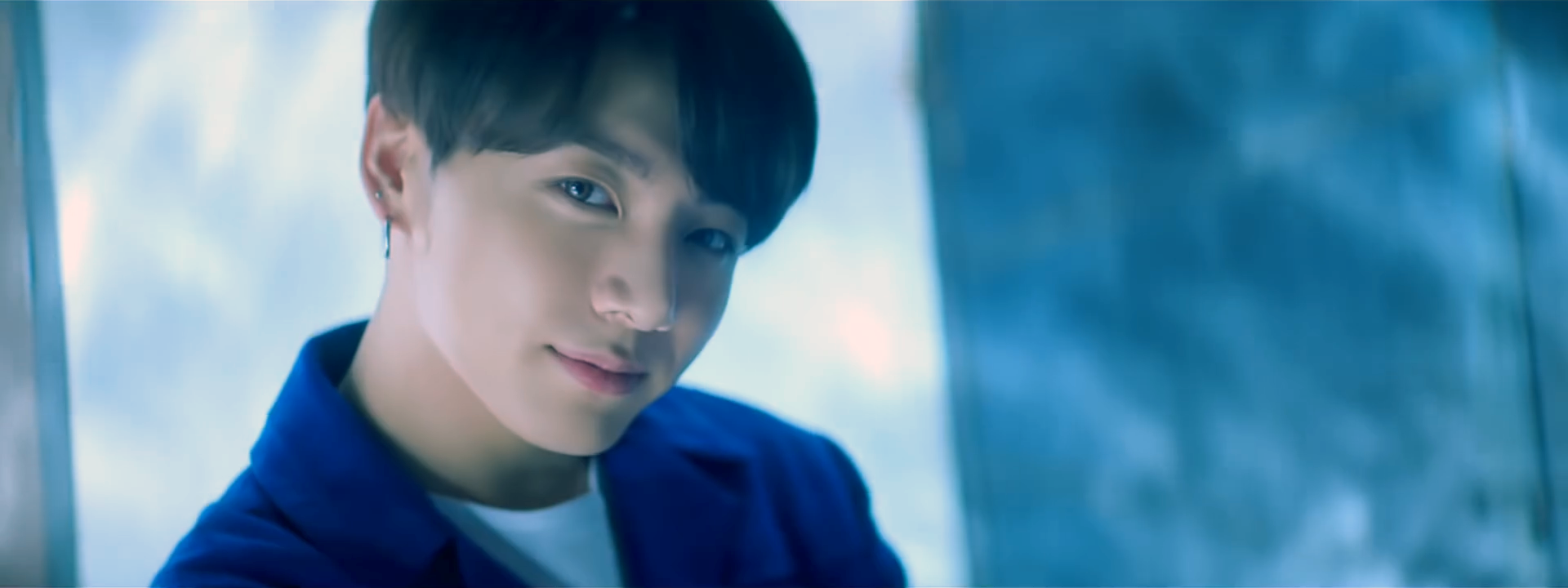 Jungkook for the 2019 VT Cosmetics perfume line "Spotlight Yourself L'Atelier"